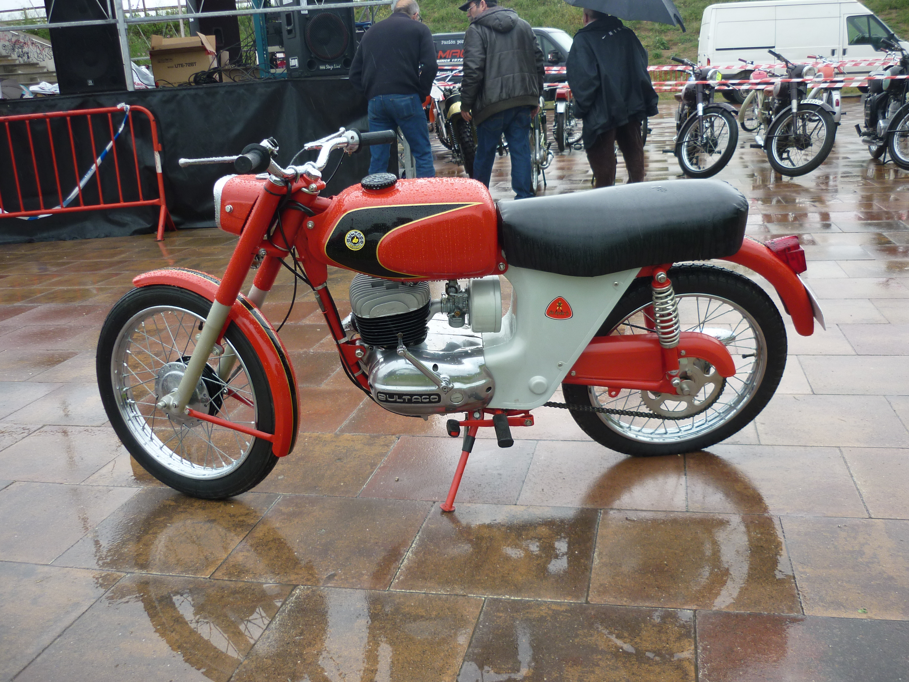 Bultaco Junior GT, circa 1970 (the filename is wrong). It was one of the most Bultaco sold models between 1965 and 1974.